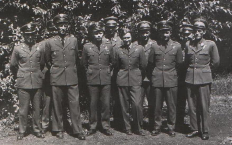 Kadra 1 szkolnej eskadr 64.LPS z d-cą kpt. pil. Leszkiem Jaworskim, obok kpt. pil. Zofia Andrychowska, 1959